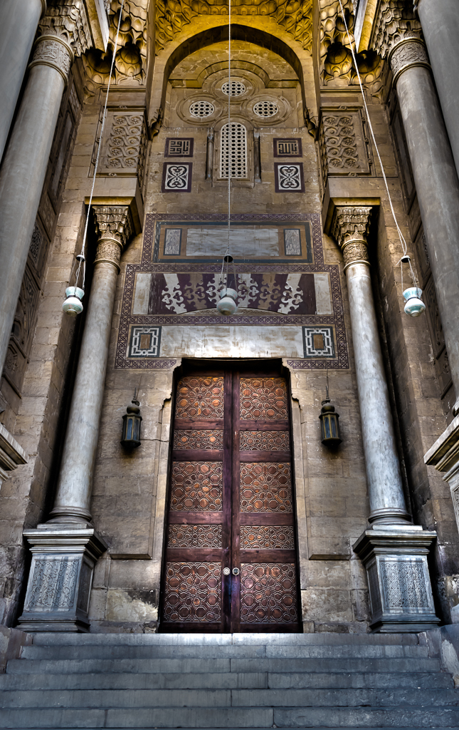 Mosque of Al Rifaii, Cairo, Egypt